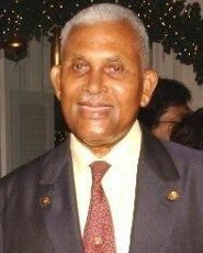 Sampson Nanton and former President of the Republic of Trinidad and Tobago, Arthur N.R. Robinson